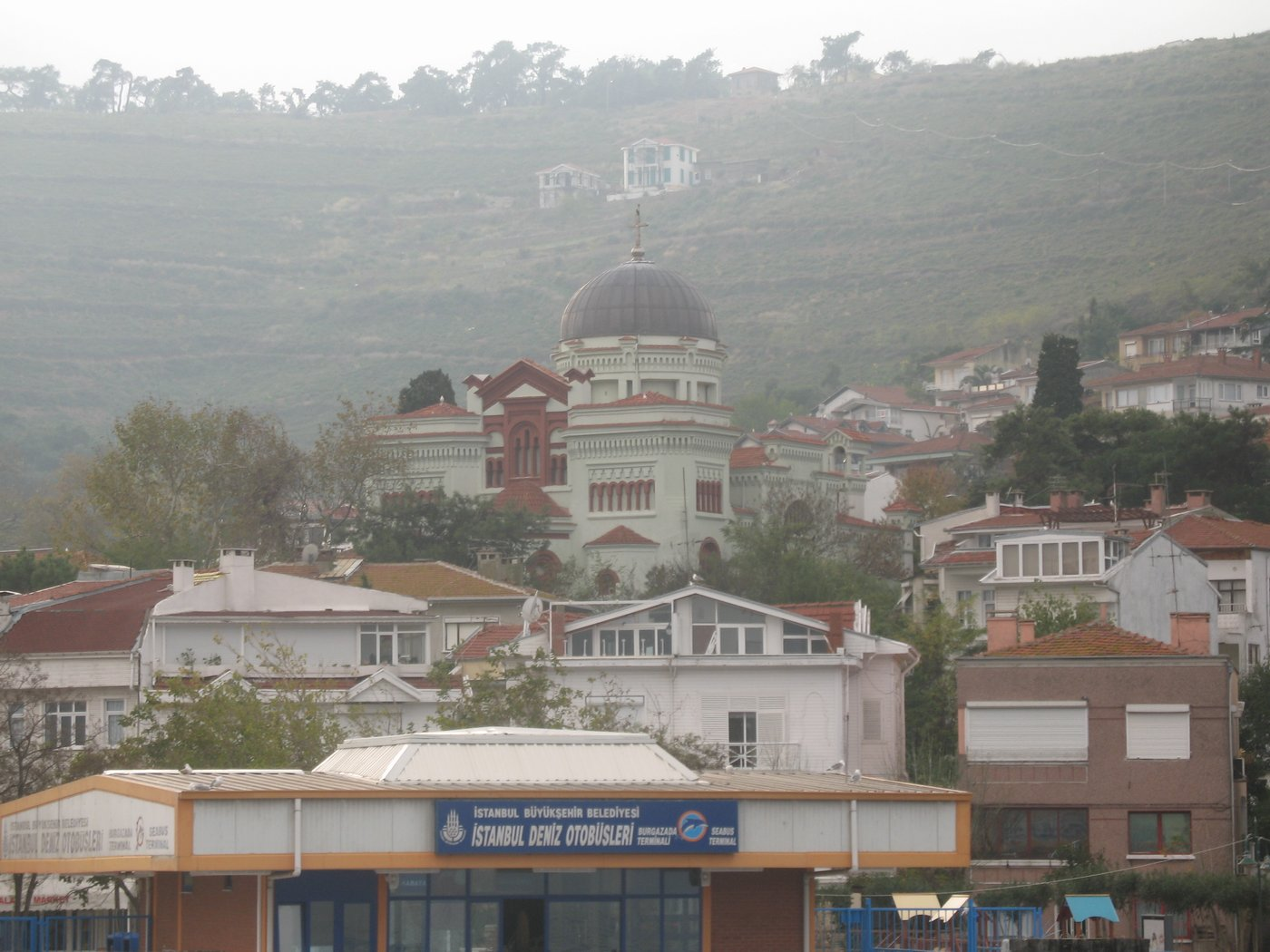 Princes' Islands,Pirgos or Antigoni or Burgaz